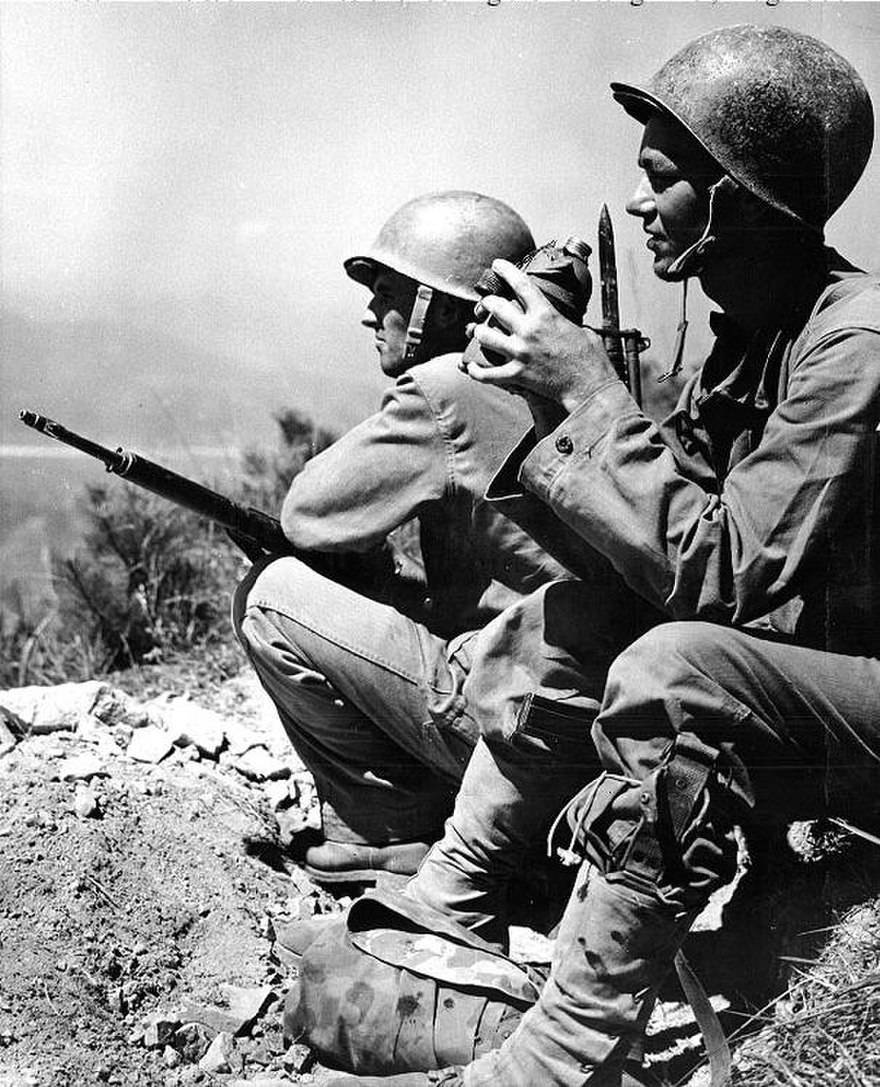 PFC Harold R. Bates and PFC Richard N. Martin rest atop the third objective that U.S. Marines seized overlooking the Naktong River, South Korea, 19 August 1950. Photographed by Sgt. Frank C. Kerr, USMC. Note: Canteen in use, M1 Rifle carried by one Marine and M1 carbine with fixed bayonet carried by the other, who has a bayonet scabbard attached to his leg.